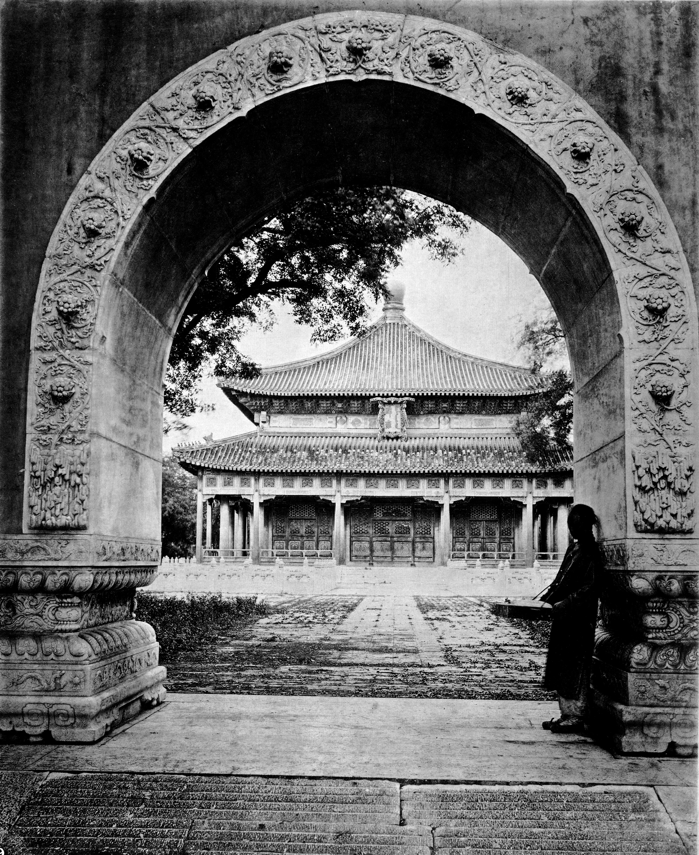 John Thomson:WEST of the Yung-ho-kung, the great Lamasary, where a living Buddha rules, stands the college attached to the Confucian temple and known as the Kwo-tsze-keen. In this building, prior to the reign of Kien-lung, the ancient classics were expounded. But that monarch determined to imitate a much more ancient structure, and accordingly built the edifice known as the Pi-yung-kung, or Hall of the Classics, which we can here discern through the archway in Plate No. 9. The building is a square, and its three remaining sides correspond with that shown in the photograph. Its upper roof rests on a series of carved wooden brackets; pillars of wood also support the lower one, and the whole is crowned with a gilded copper ball. The base is marble, and the edifice is approached by four bridges of the same material, spanning a marble-walled moat, surrounded with white marble balustrades. The hall stands in the centre of a court, and on the right and left of it, in long open verandahs, there are about 200 tablets of upright stone. On these tablets the complete text of the nine classics has been engraved, an idea repeated from the Han and Tang dynasties, " each of which had a series of monuments engraved with the classics in the same way." In front there is a yellow porcelain triple archway, or pai-Iau, having the inner portion of its arches built of white marble. It was through the centre of this structure that the picture here presented was taken.